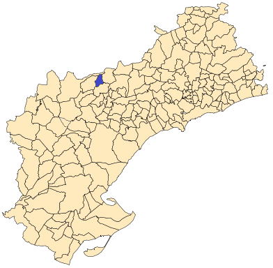 La Bisbal de Falset